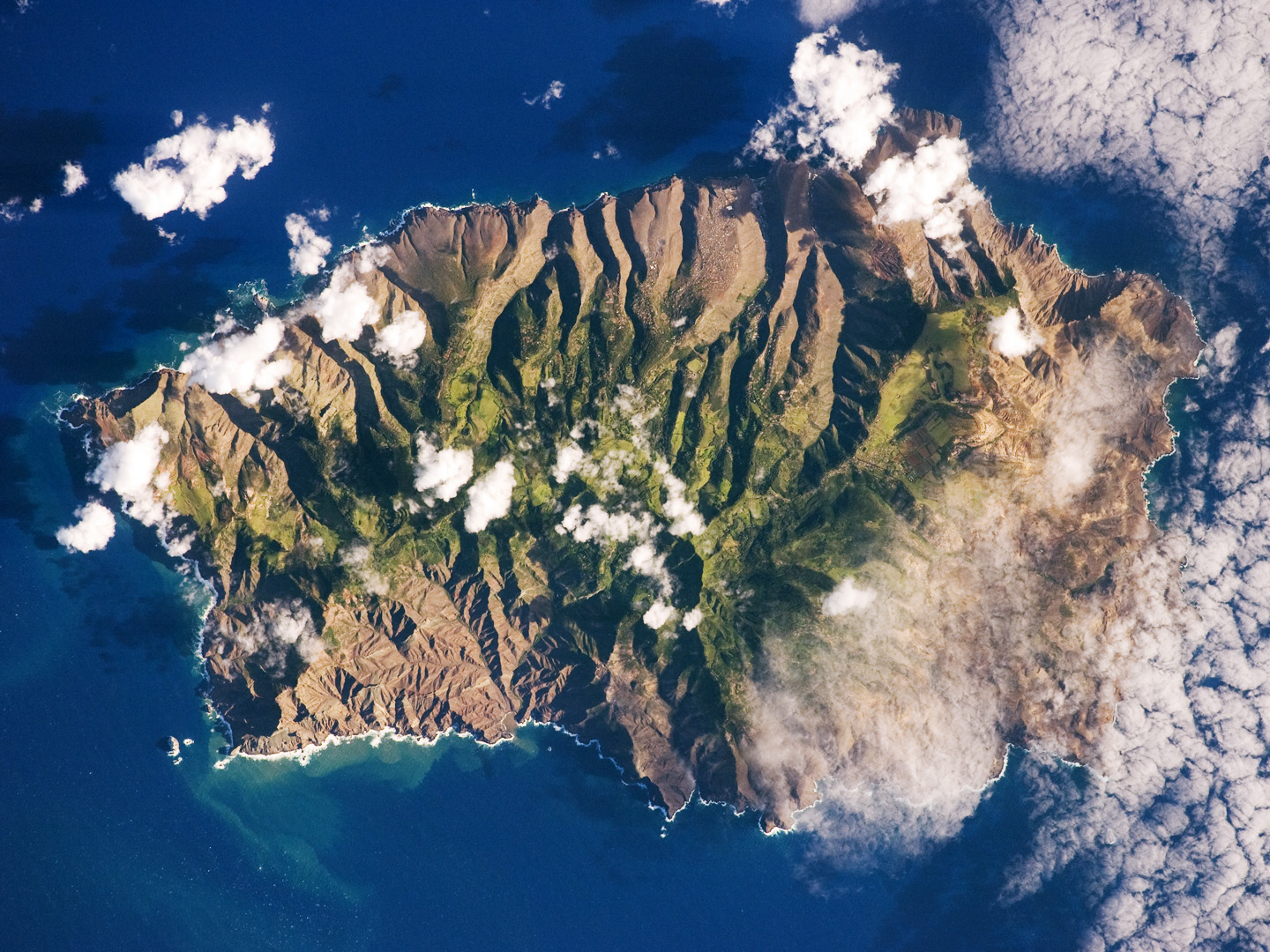 This astronaut photograph shows the island’s sharp peaks and deep ravines; the rugged topography results from erosion of the volcanic rocks that make up the island. The change in elevation from the coast to the interior creates a climate gradient. The higher, wetter centre is covered with green vegetation, whereas the lower coastal areas are drier and hotter, with little vegetation cover.